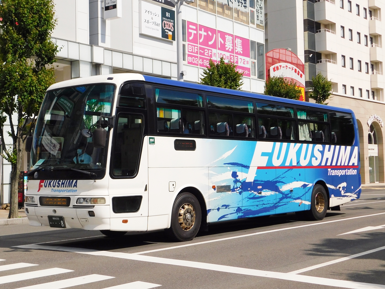 Fukushima kotsu Fuso Aero Queen I (KL-MS86MP)on highwaybus "Abukuma"(Fukushima,Koriyama-Shinjuku) Nikon Coolpix B500